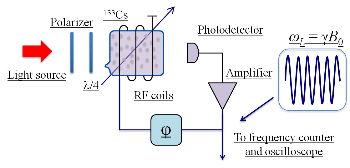 Mx-magnetometer spin generator